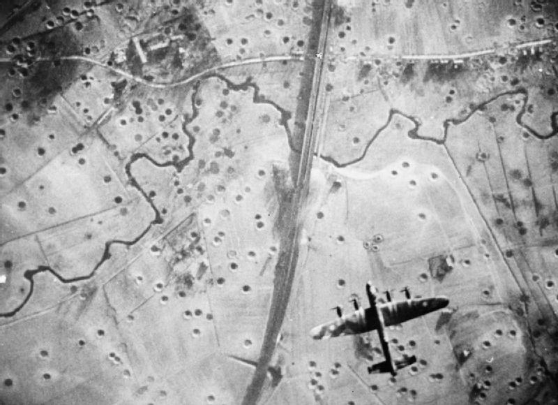 Still from film taken by the RAF Film Production Unit, showing an Avro Lancaster of No. 617 Squadron RAF flying over the target during a daylight raid on the railway viaduct at Schildesche, Bielefeld, Germany. Smoke can be seen rising from a near miss. 18 aircraft of the Squadron bombed the viaduct with 5,450 kg (12,000 lb) "Tallboy" deep-penetration bombs and several direct hits were claimed, but subsequent photographic-reconnaissance evidence showed the viaduct to be still intact. The viaduct was attacked repeatedly but only collapsed after using 10,000 kg (22,000 lb) "Grand Slam" bombs on 14 March 1945.